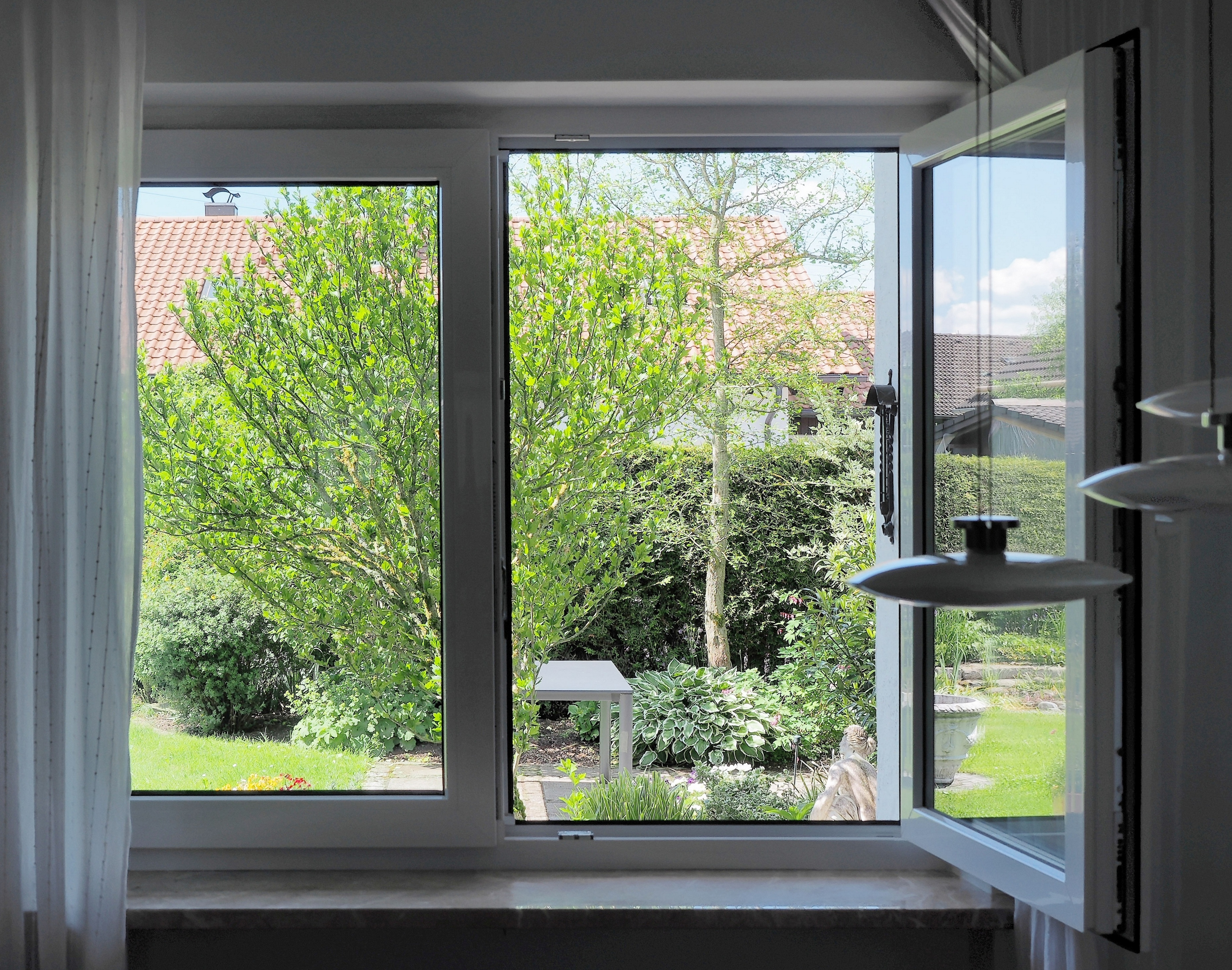 View into a garden through an open ground floor window in a Bavarian village